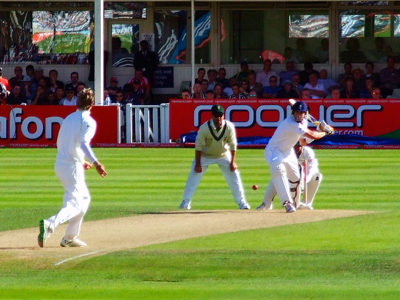 3rd Day, 3rd Test: England v South Africa at Edgbaston, Birmingham, 1st August 2008 Kevin Pietersen attempts the switch hit.